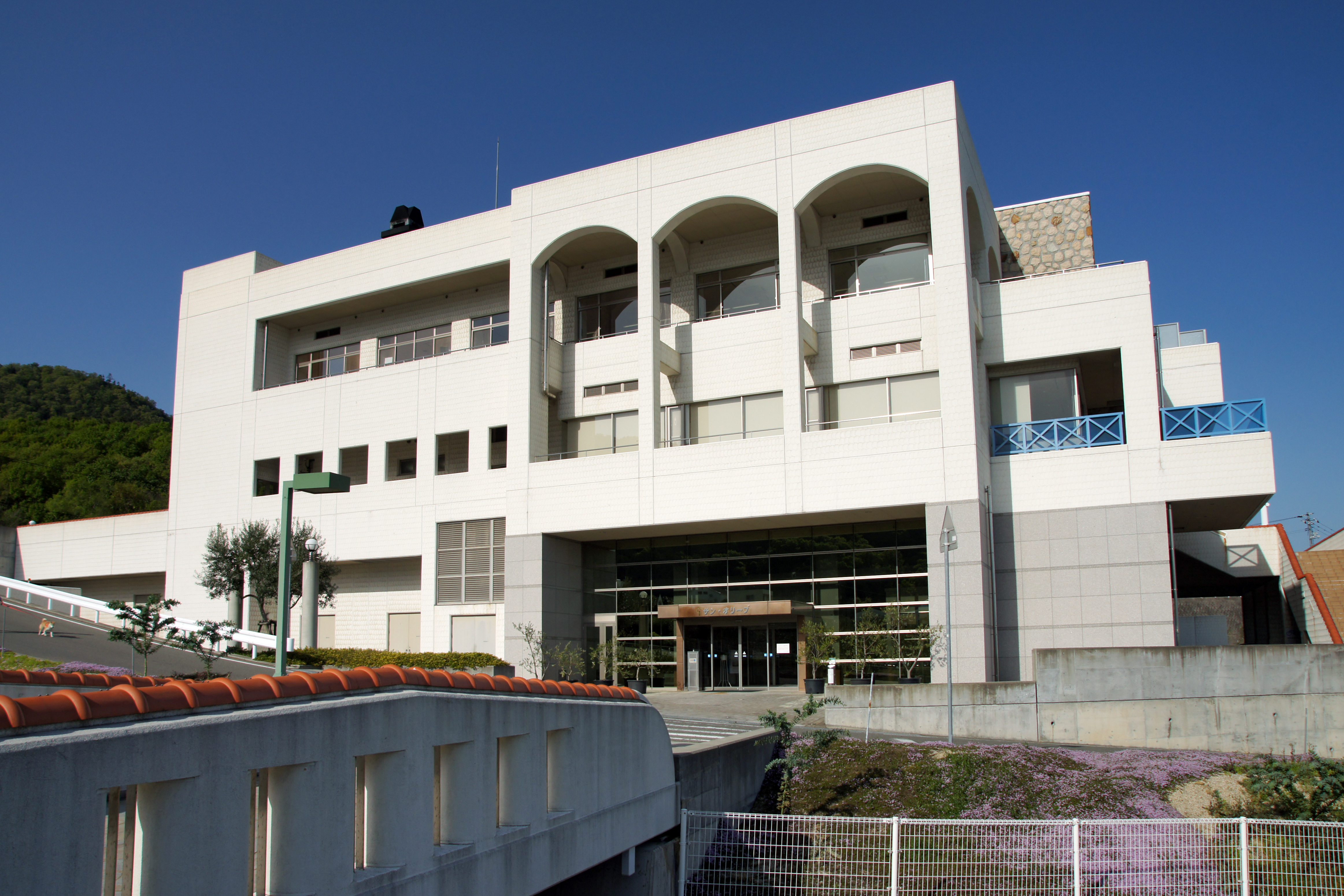 Shodoshima Olive Park of Shōdo Island, Shodoshima, Kagawa prefecture, Japan